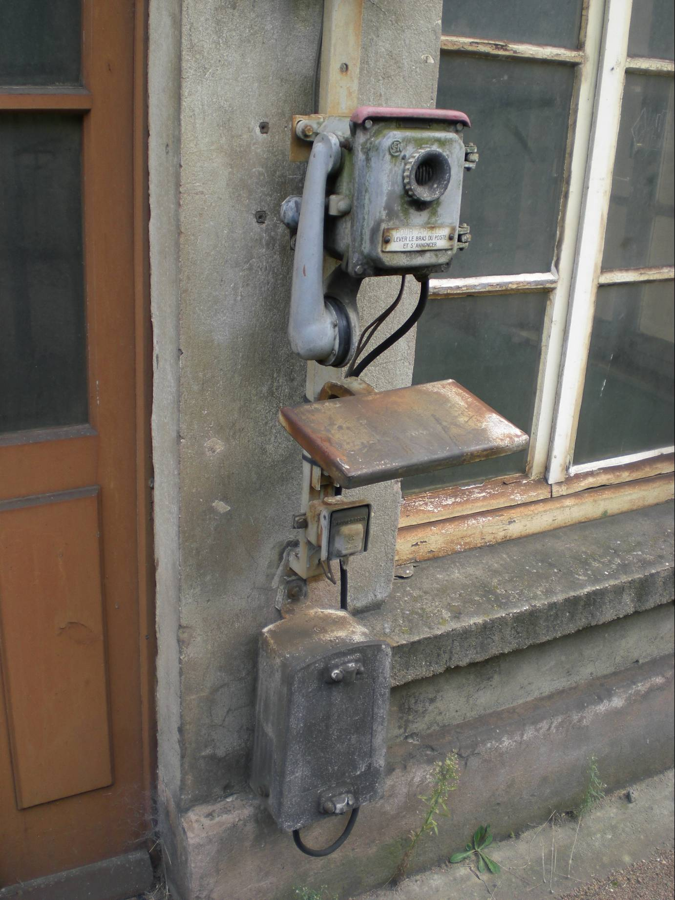 Telephone at the railway station Hombourg-Haut, Lorraine